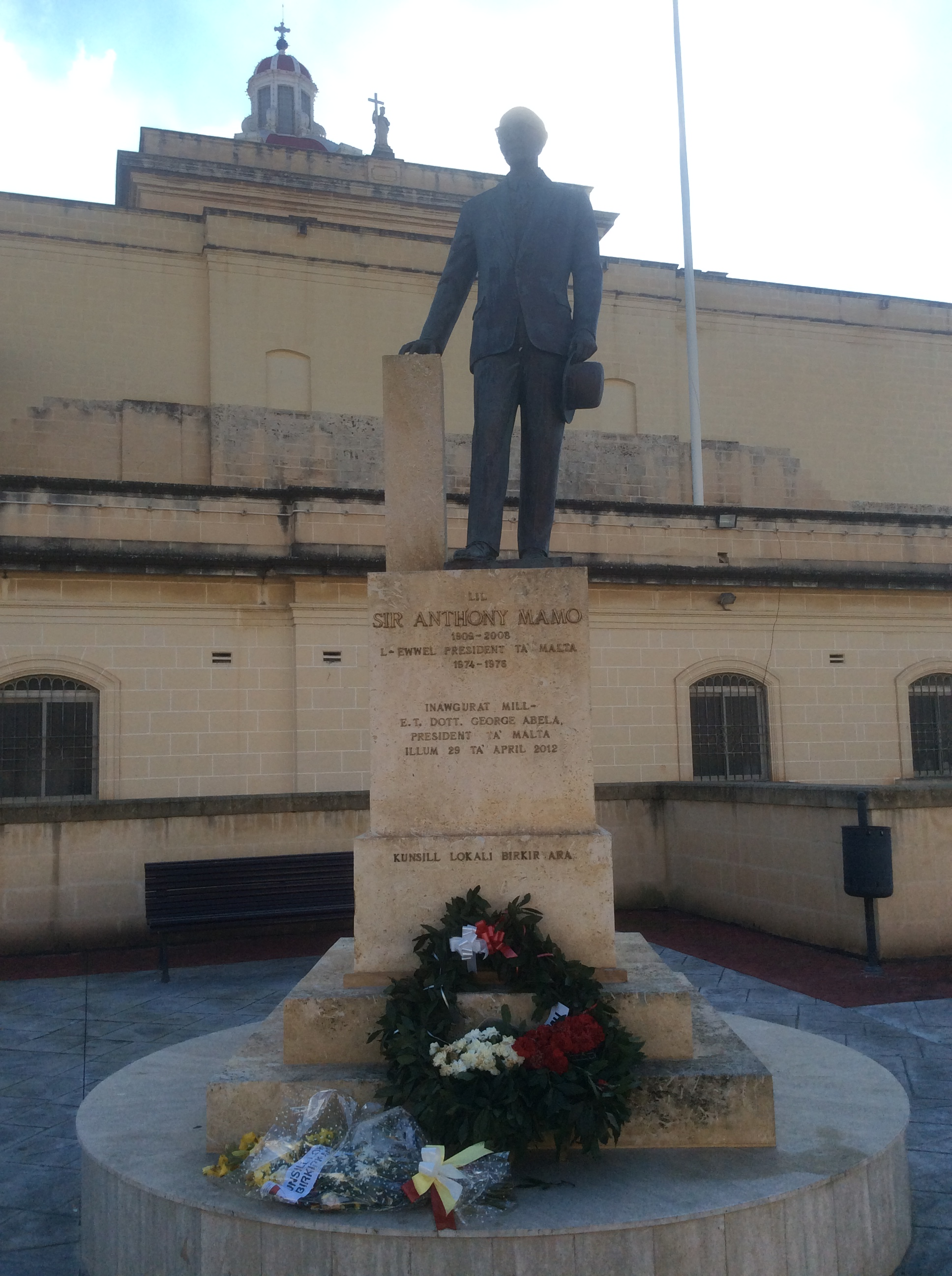 Monument of Anthony Mamo Birkirkara Malta